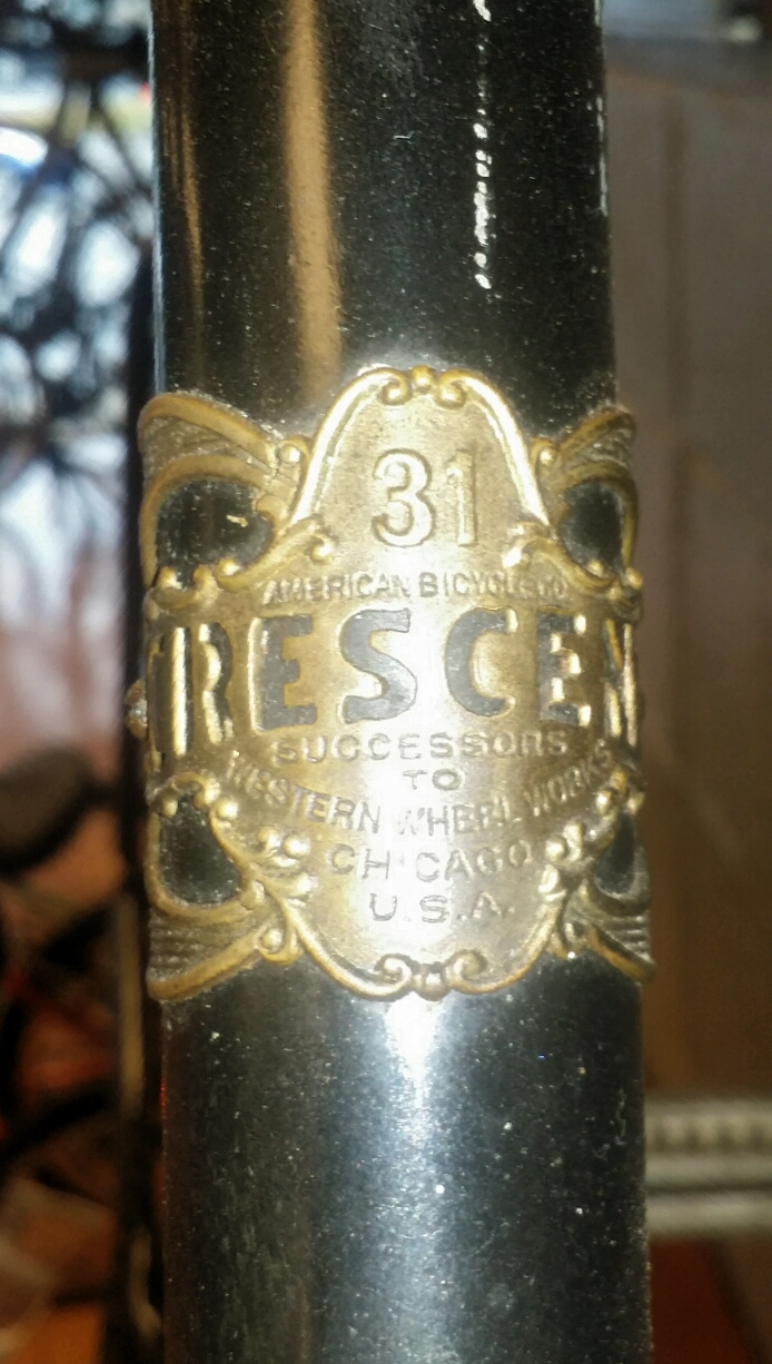 Crescent American Bicycles Head Badge